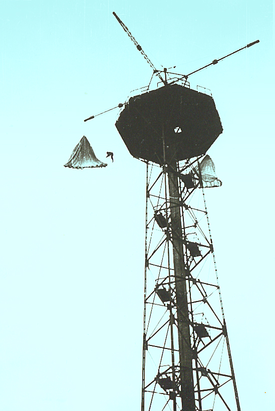 Parachute Tower in Holiday Park. Leningrad.